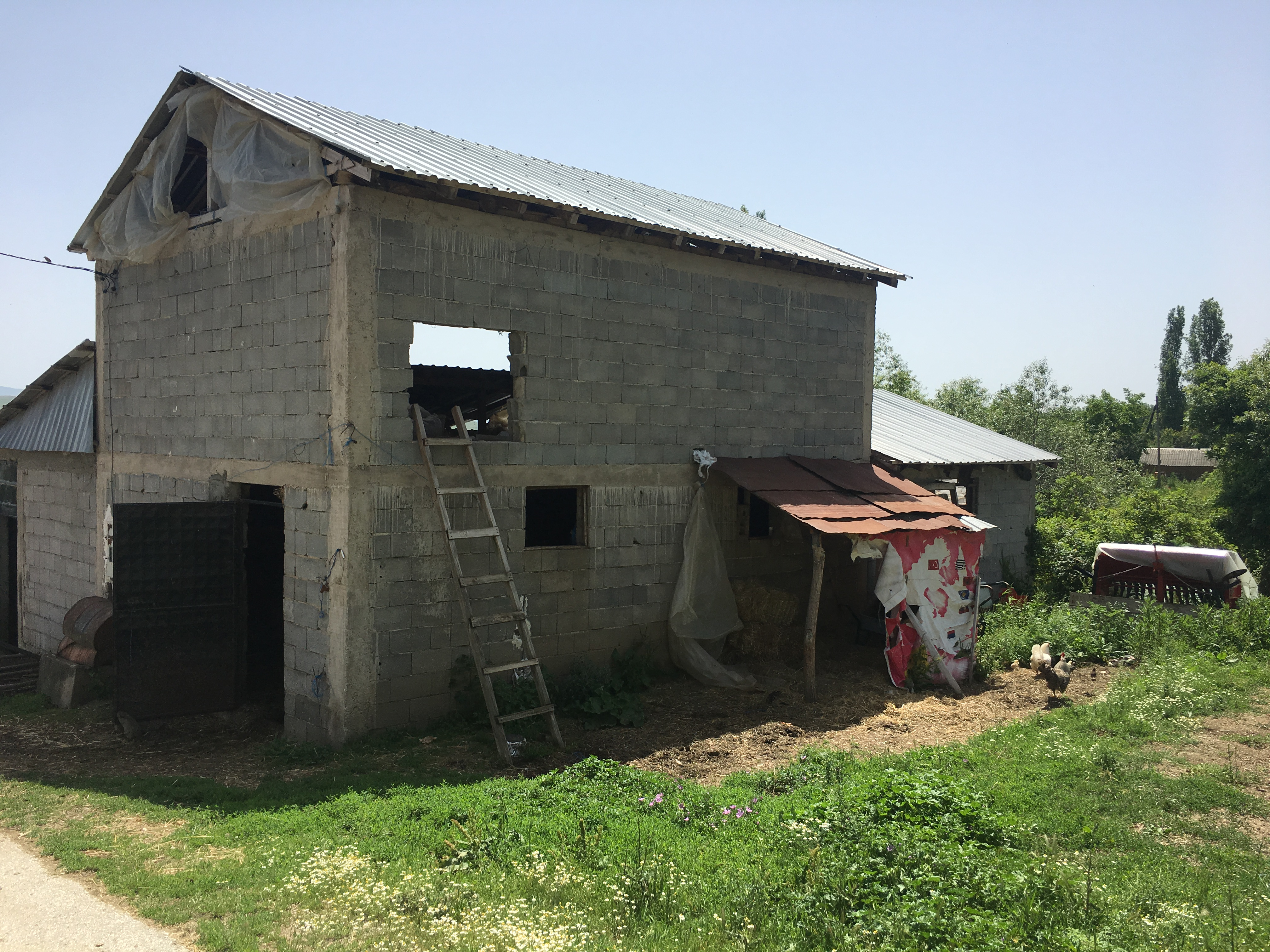 A house in the village of Podino